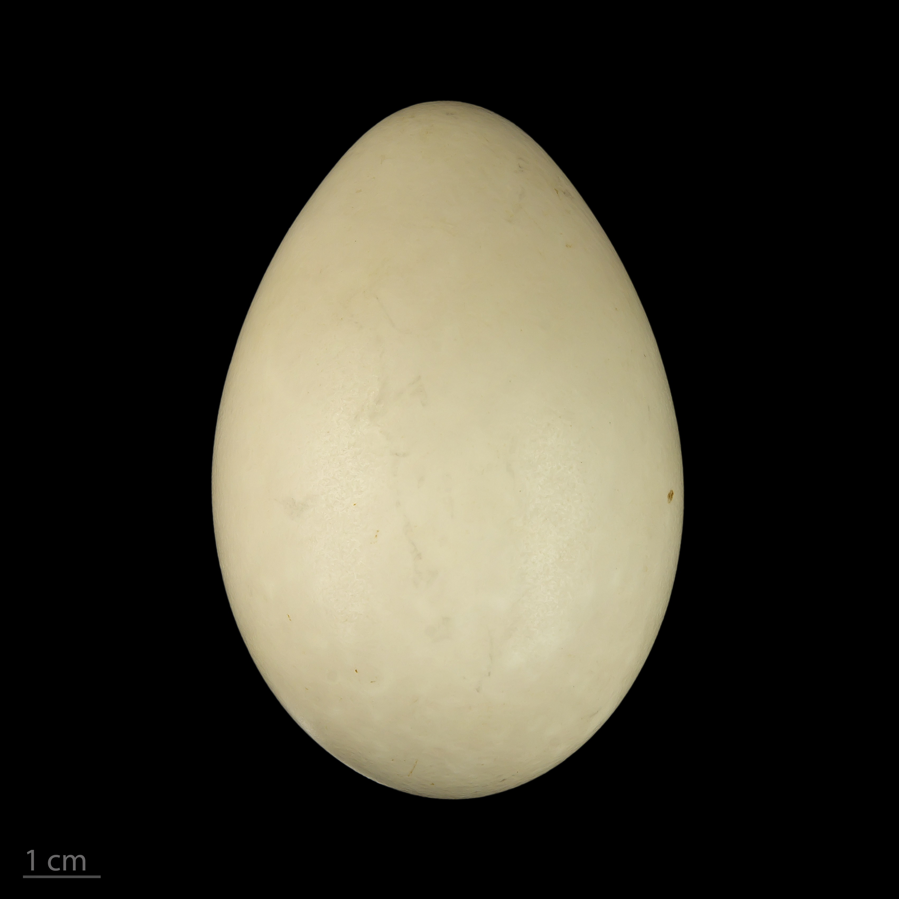 Egg of Falkland steamer duck Collection of Jacques Perrin de Brichambaut.